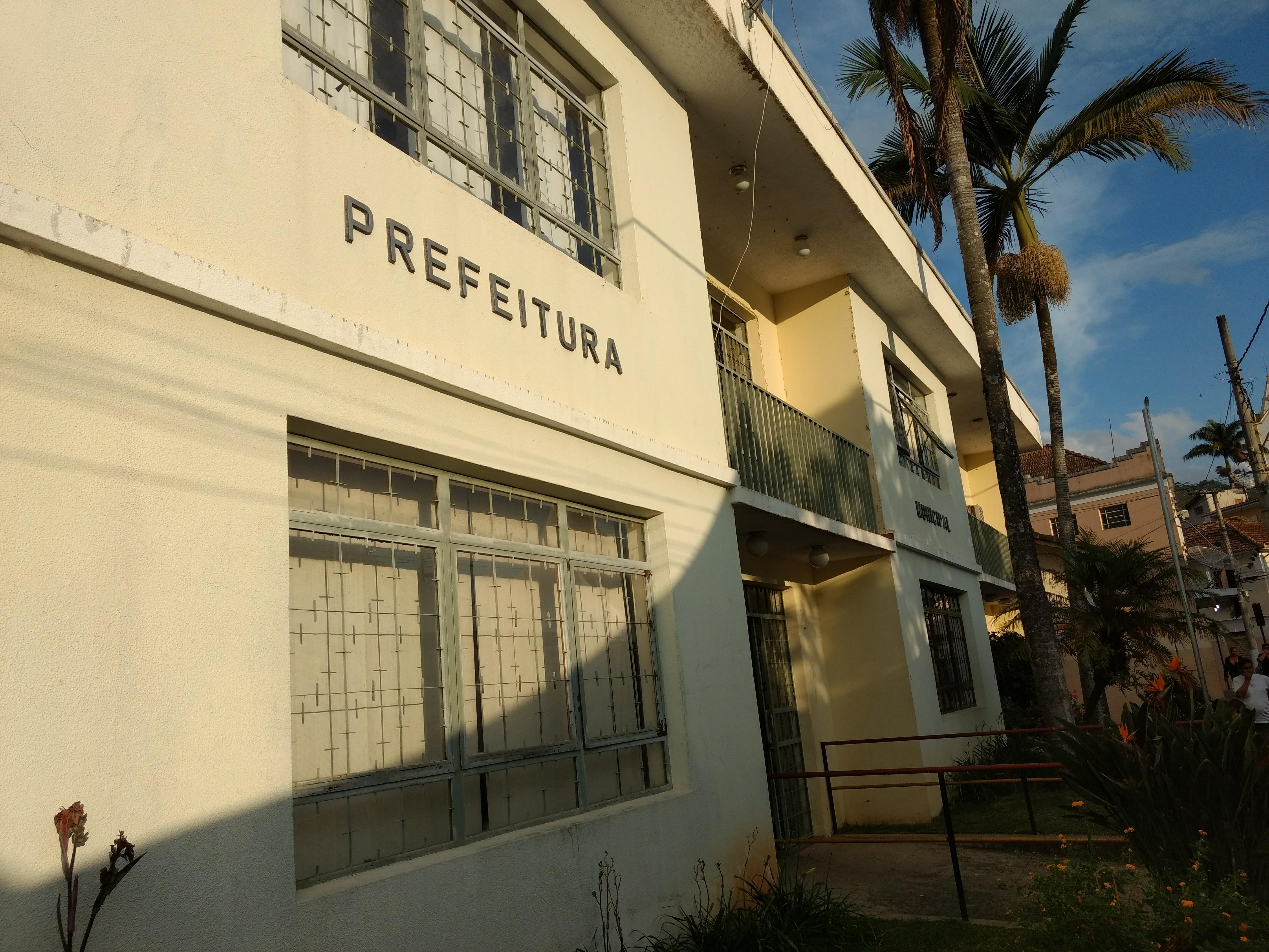 City hall of Cristina, Minas Gerais, Brazil